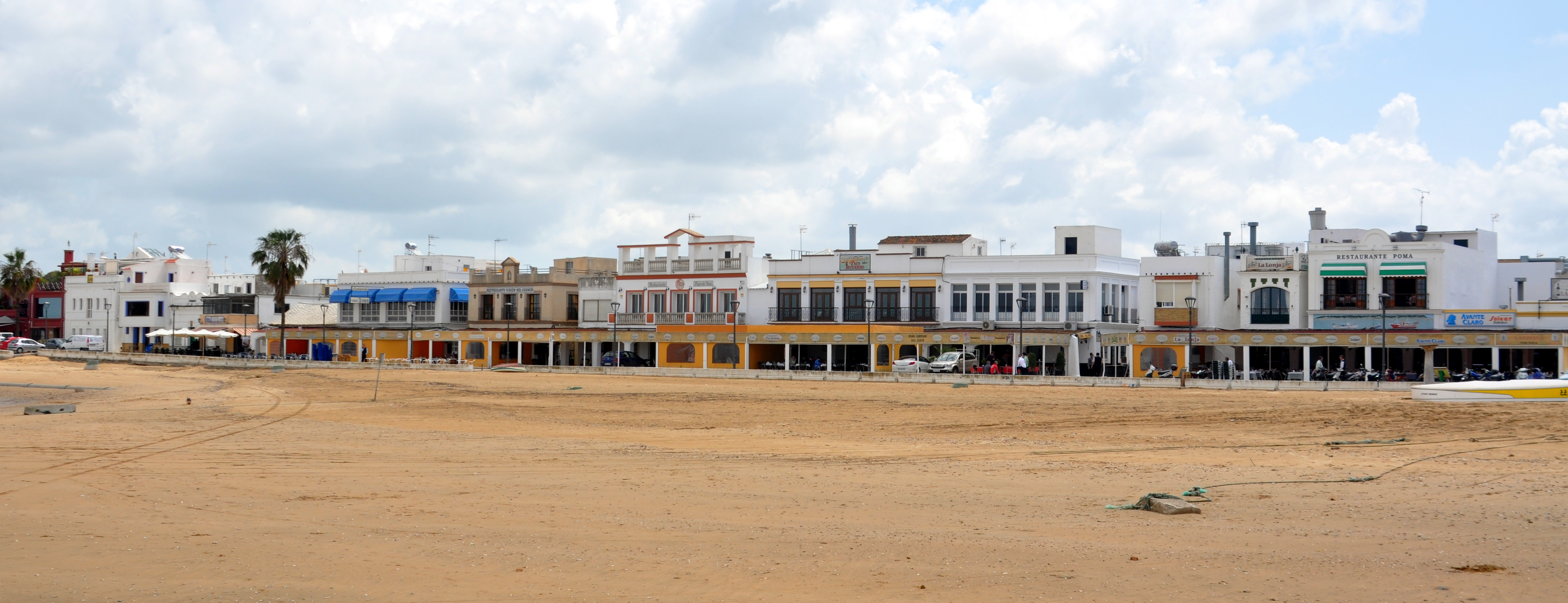 Bajo de Guía. Sanlúcar de Barrameda, Cádiz, Spain.